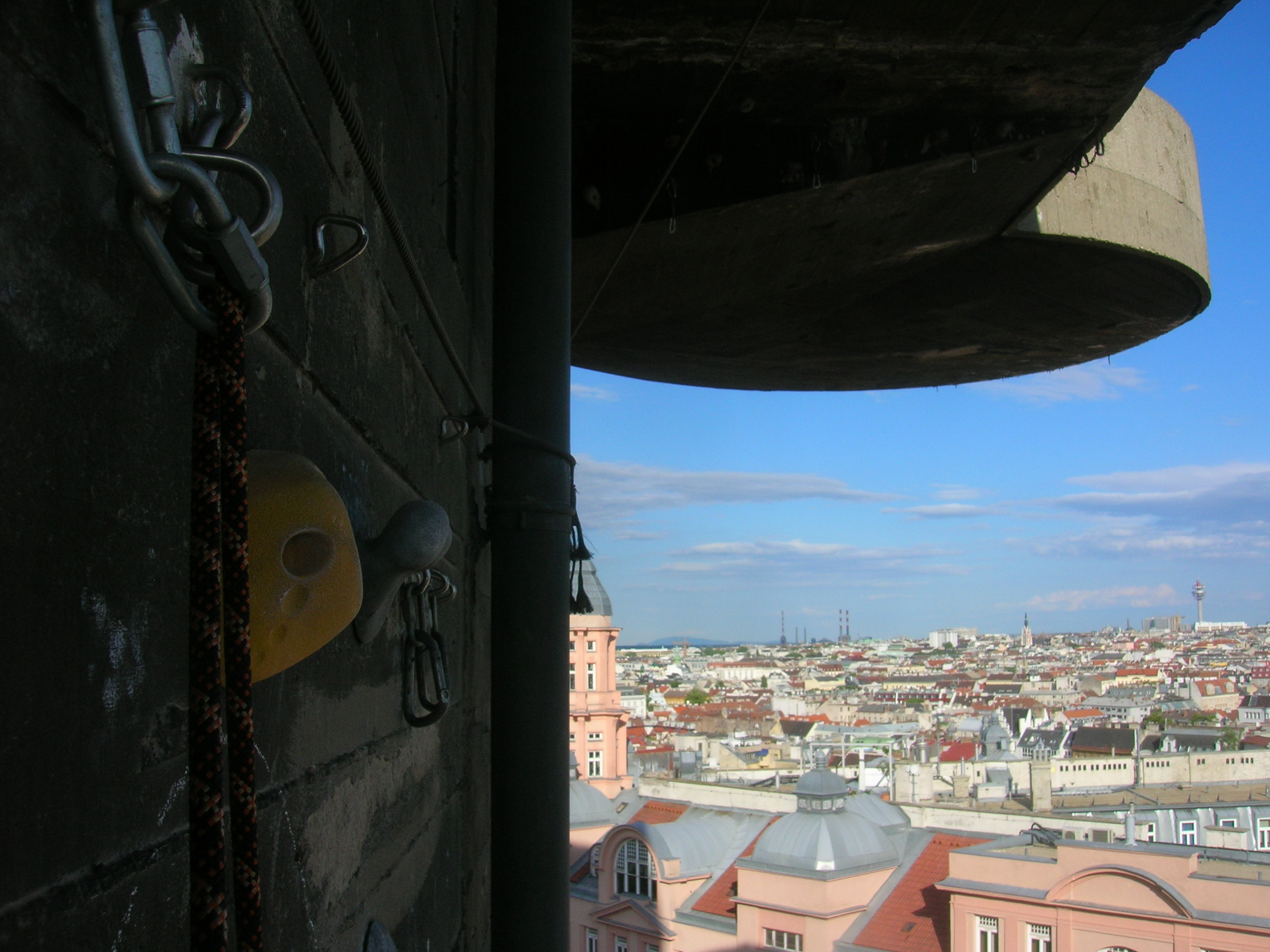 climbing wall ont the House of the sea, one of Vienna's flak towers